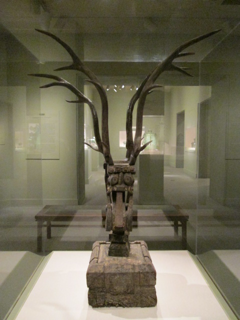 Taken at Sackler Gallery in Washington DC